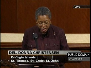 Donna Christian-Christensen appears on the floor of the House of Representatives